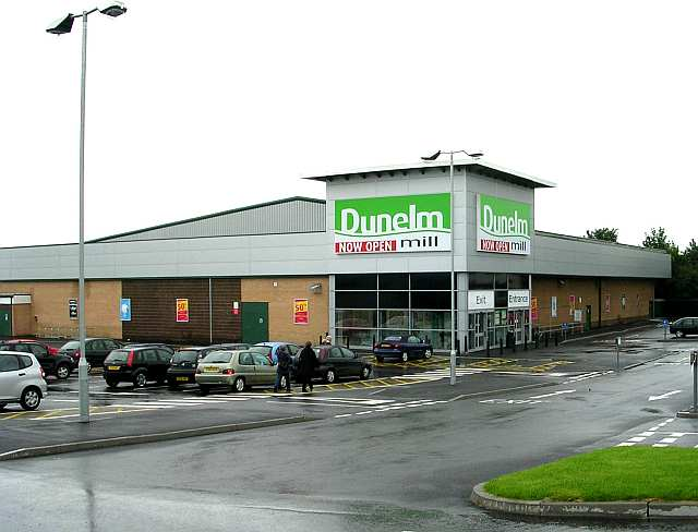 Dunelm Mill - Sticker Lane This was formerly a Morrison's Supermarket.